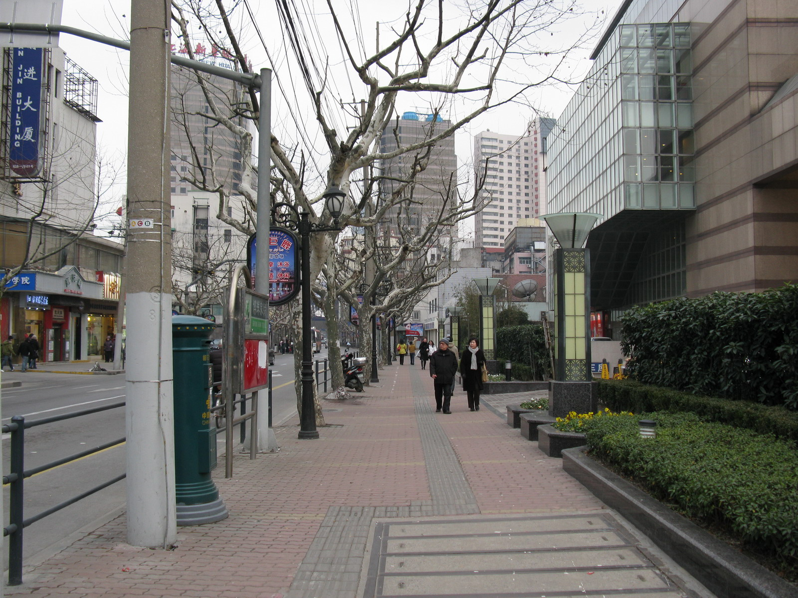 Ruijin No.1 Road, Changle Road, view towards Central Huaihai Road